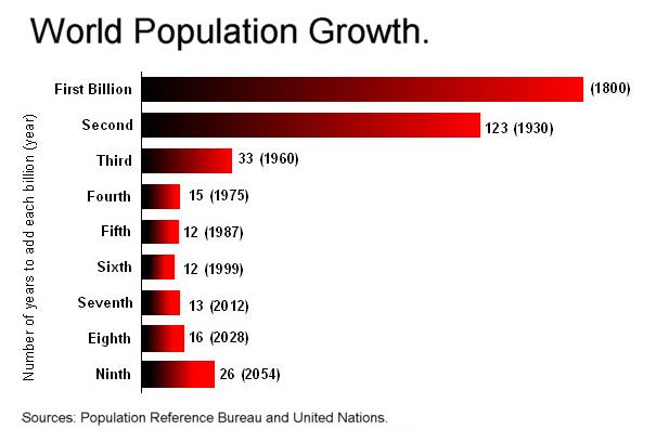 This is a chart illustrating world population growth in billions with the dates when the billions were reached.